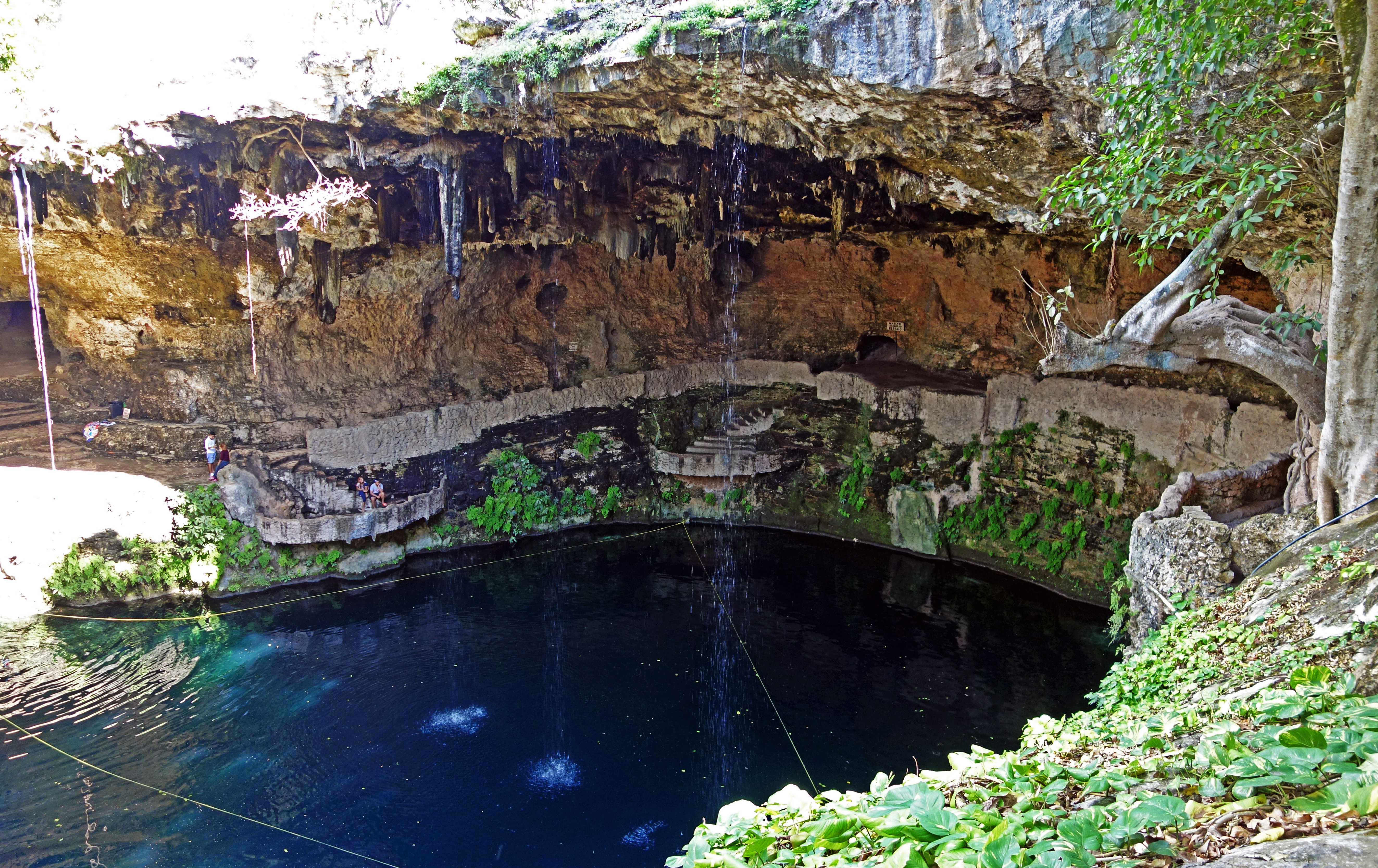 Zací Cenote in Valladolid, Yucatán, Mexico